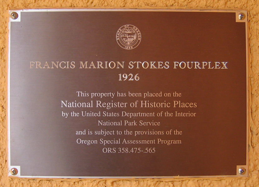 National Registry of Historic Places Plaque of the Francis Marion Stokes Fourplex